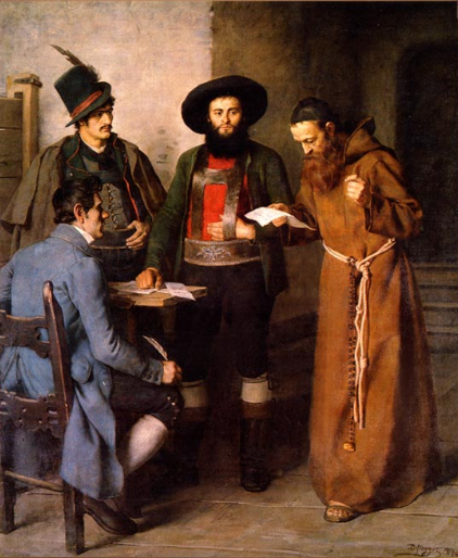 Andreas Hofer, Josef Speckbacher, Joachim Haspinger and Kajetan Sweth, secretary to Hofer